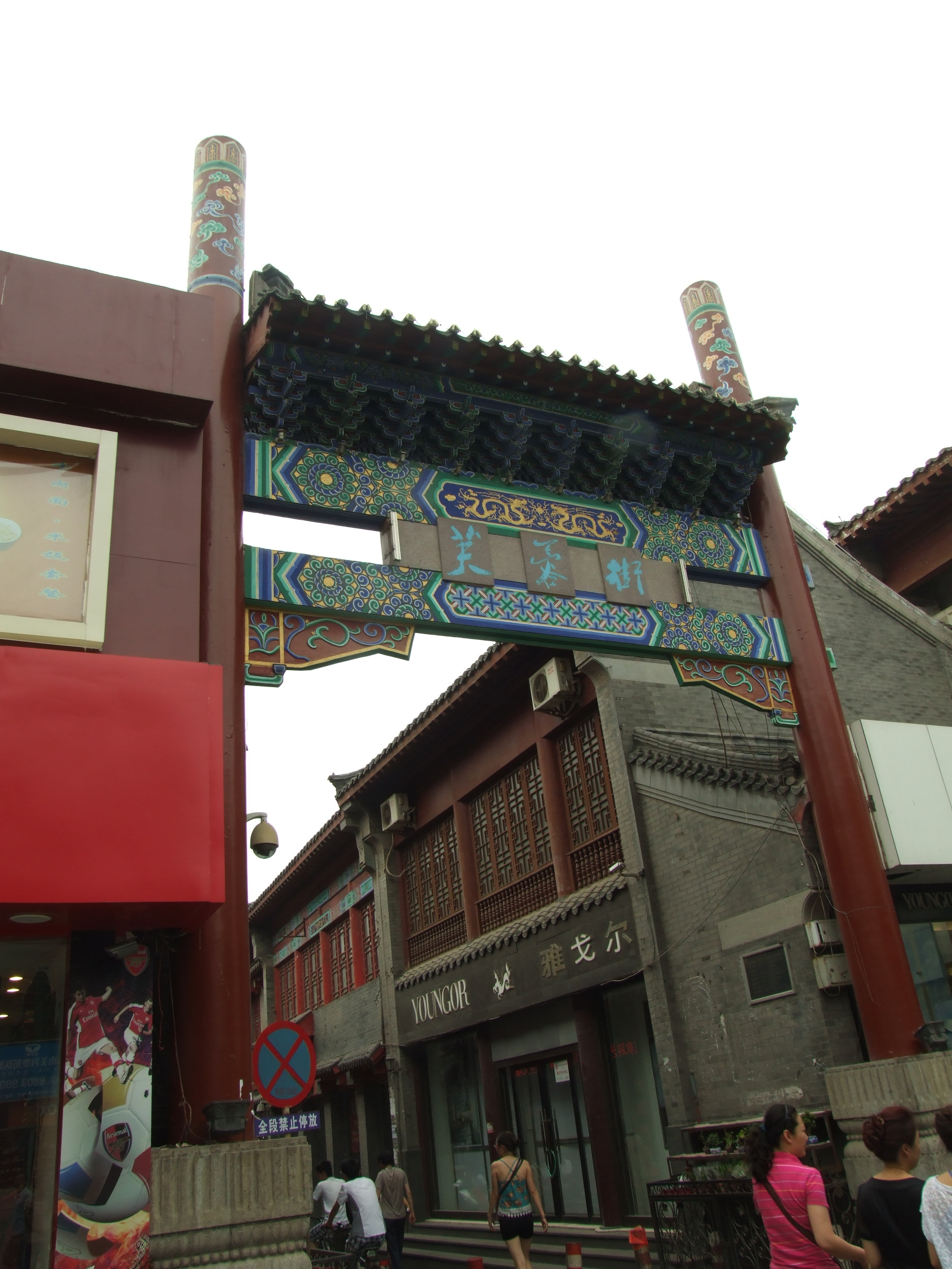 The entrance to the Furong Street, Jinan